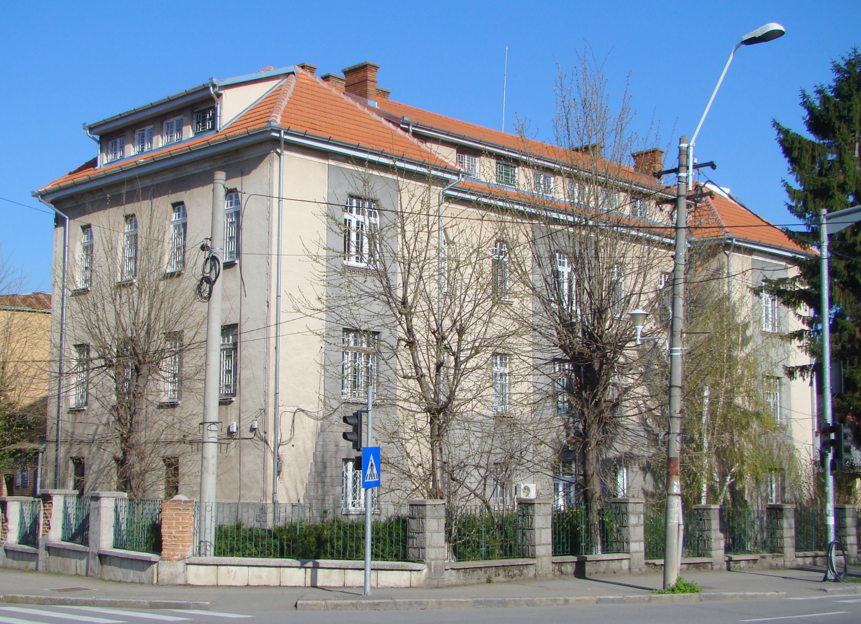 Children's hospital in Deva Hunedoara county, Romania